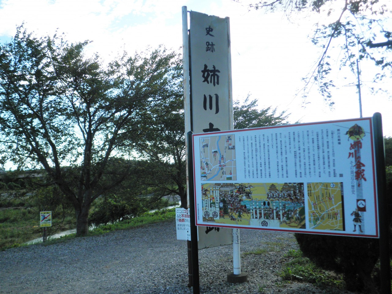 Anegawa Historic Battlefield located in Shiga Pref.,Japan.